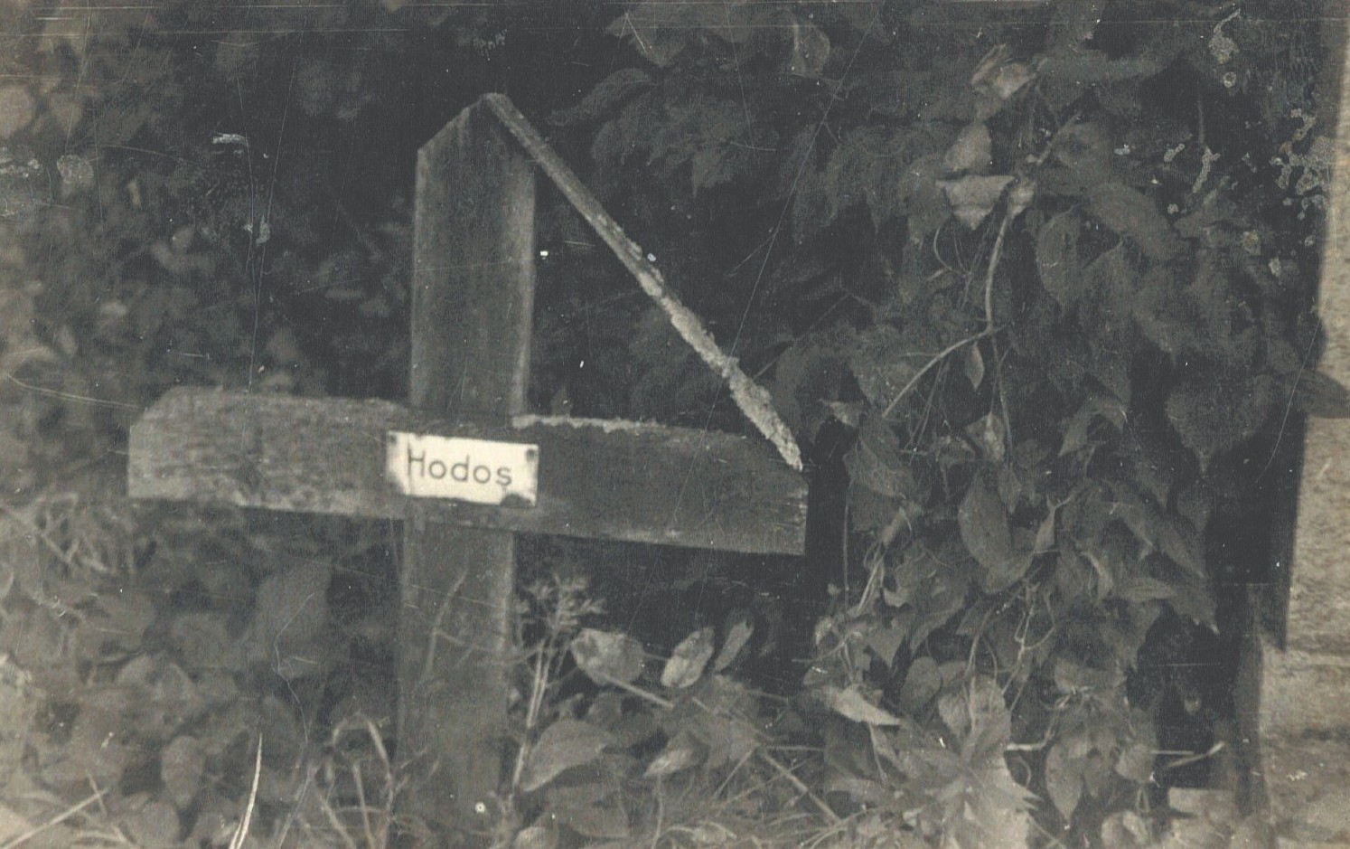 Enea Hodos grave's in Sibiu central cemetery